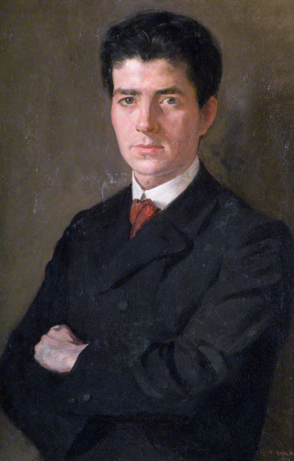 Self portrait oil on canvas 73 x 48.5 cm 1905